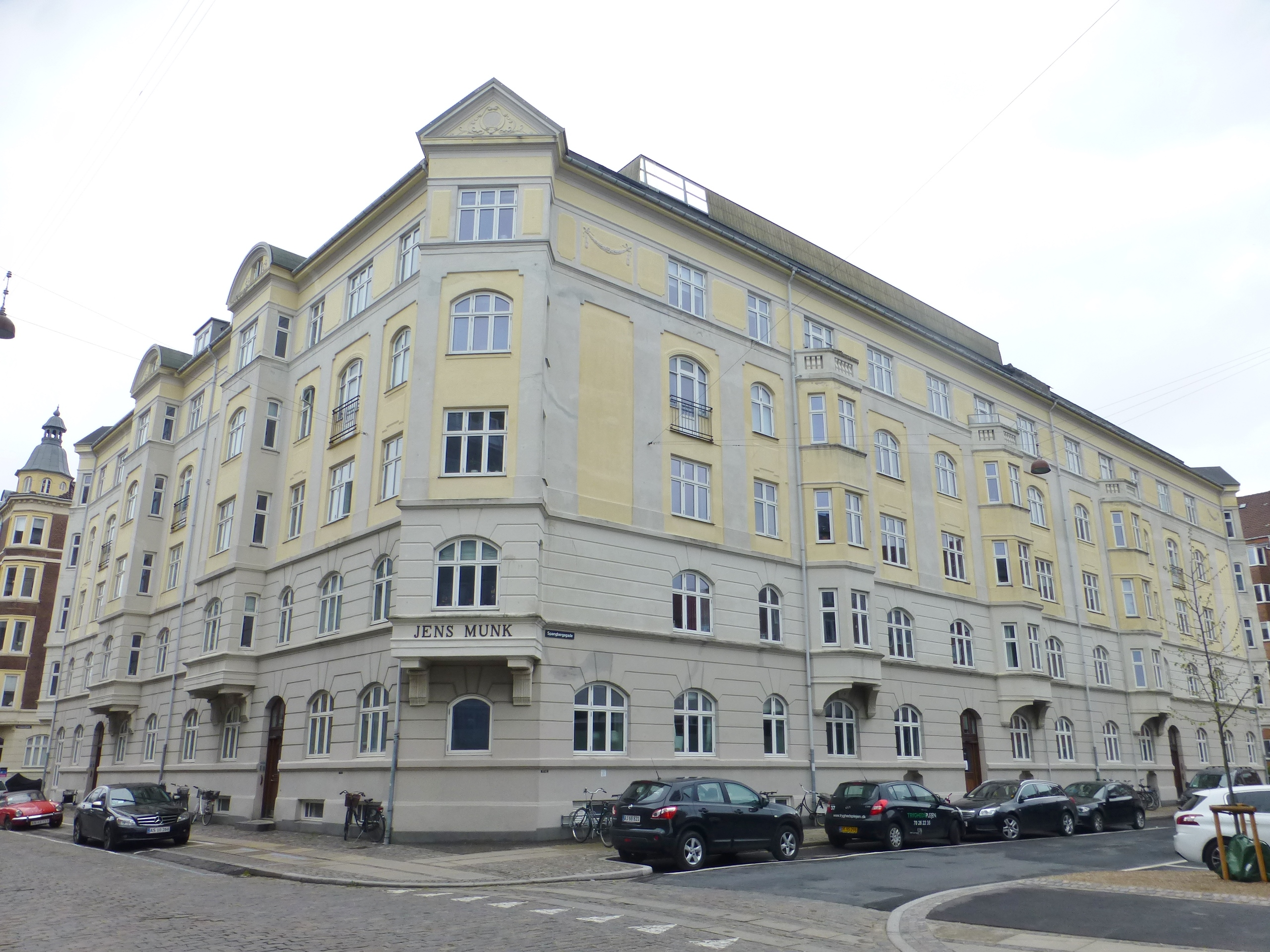 The building Jens Munk at the corner of Jens Munks Gade and Spangbergsgade in Østerbro in Copenhagen.